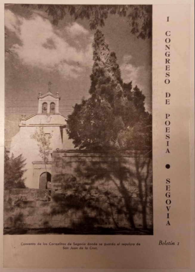 Ajuntament de Girona. Arxiu Rafael i María Teresa Santos Torroella.